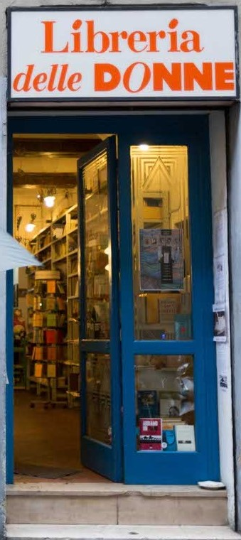 women's bookstore in florence, italy